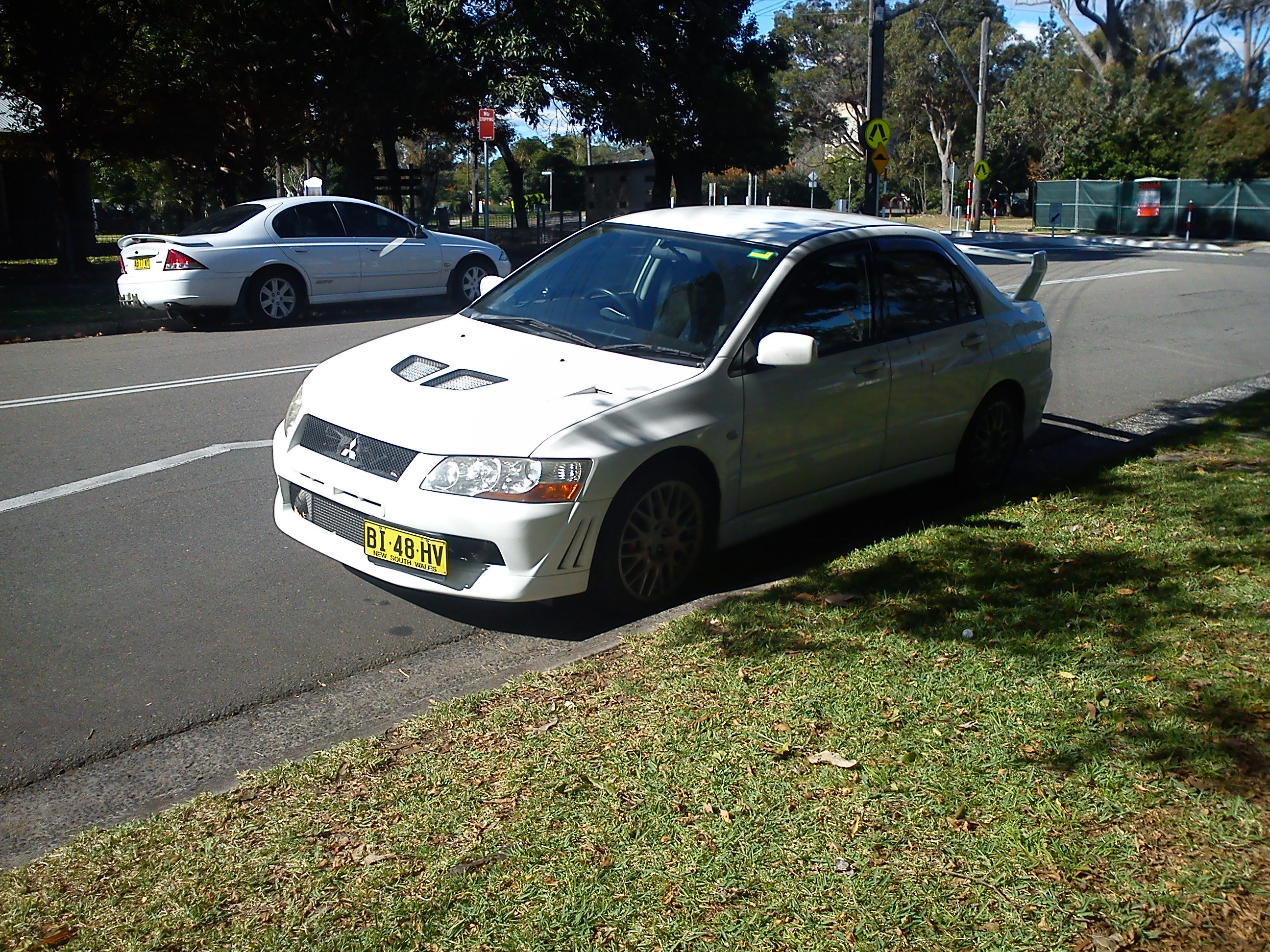 Mitsubishi Lancer Evolution VII.